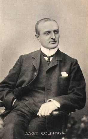 Aage Emil August Angelo Colding (1869-1921), Danish actor